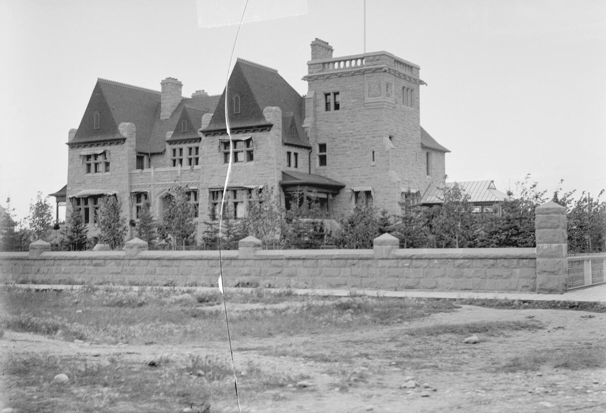 Senator Patrick Burns house, Calgary, Alberta.